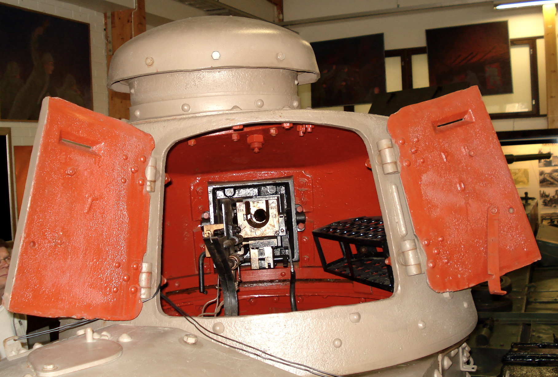 Renault FT-17 tank armed with 37 mm gun. This example, which was exported to Finland, displayed in Finnish Tank Museum (Panssarimuseo) in Parola. Photo taken on July 14, 2006. Source: Photo by me, User:Balcer.